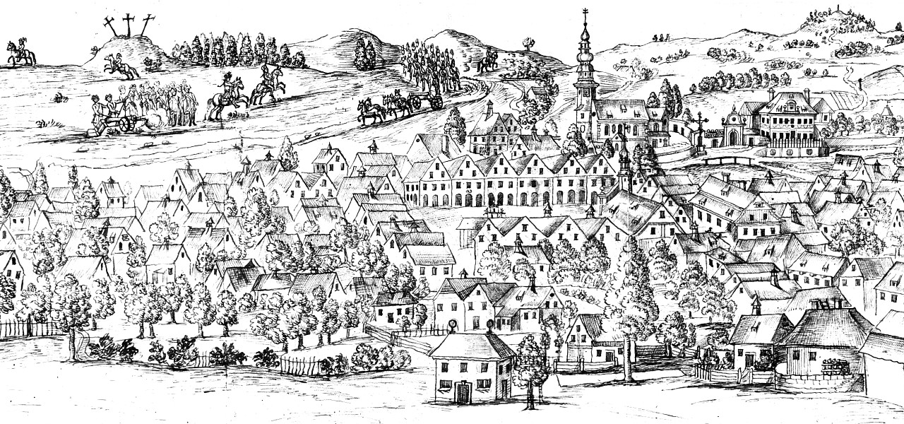 Chrastava about 1750